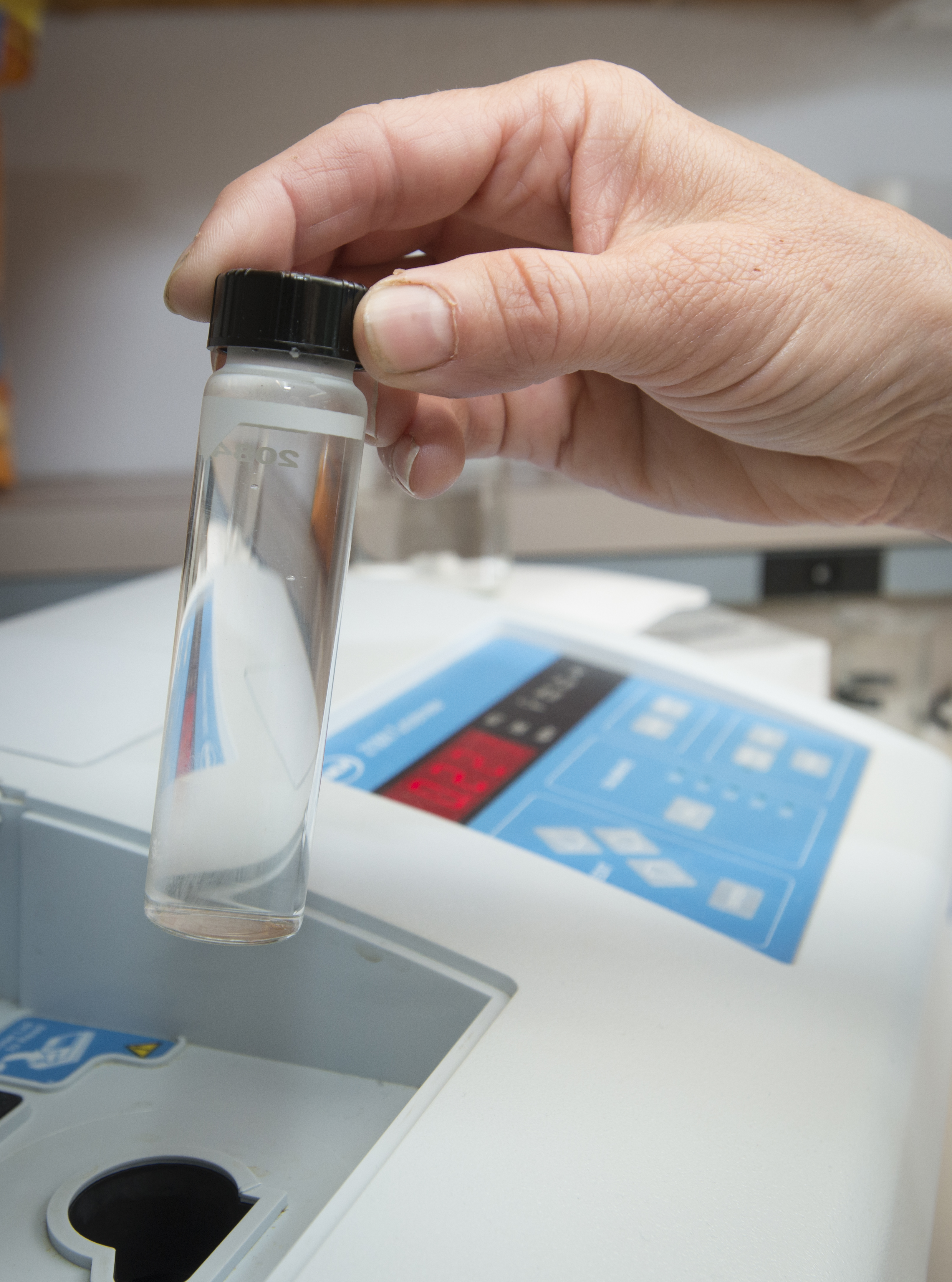 The Broken Bow Water Treatment Facility in Broken Bow, OK on Thursday, Apr. 9, 2015. UThis facility was built with the assistance of U.S. Department of Agriculture (USDA), Rural Development (RD). USDA photo by Lance Cheung.